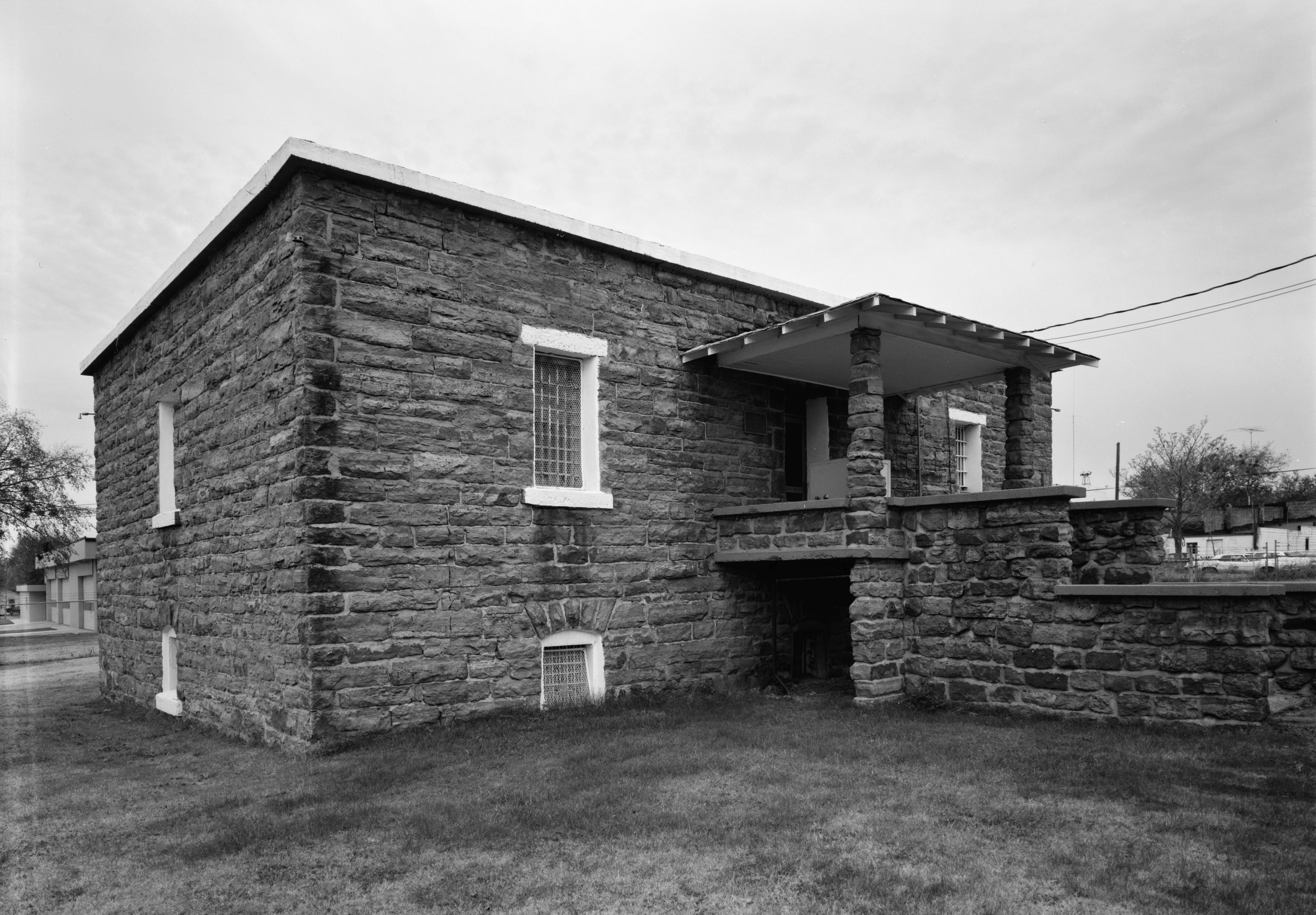 Front and side of the Cherokee National Jail, located at the intersection of Choctaw Street and Water Avenue in Tahlequah, Oklahoma, United States. Built in 1874, it is listed on the National Register of Historic Places.